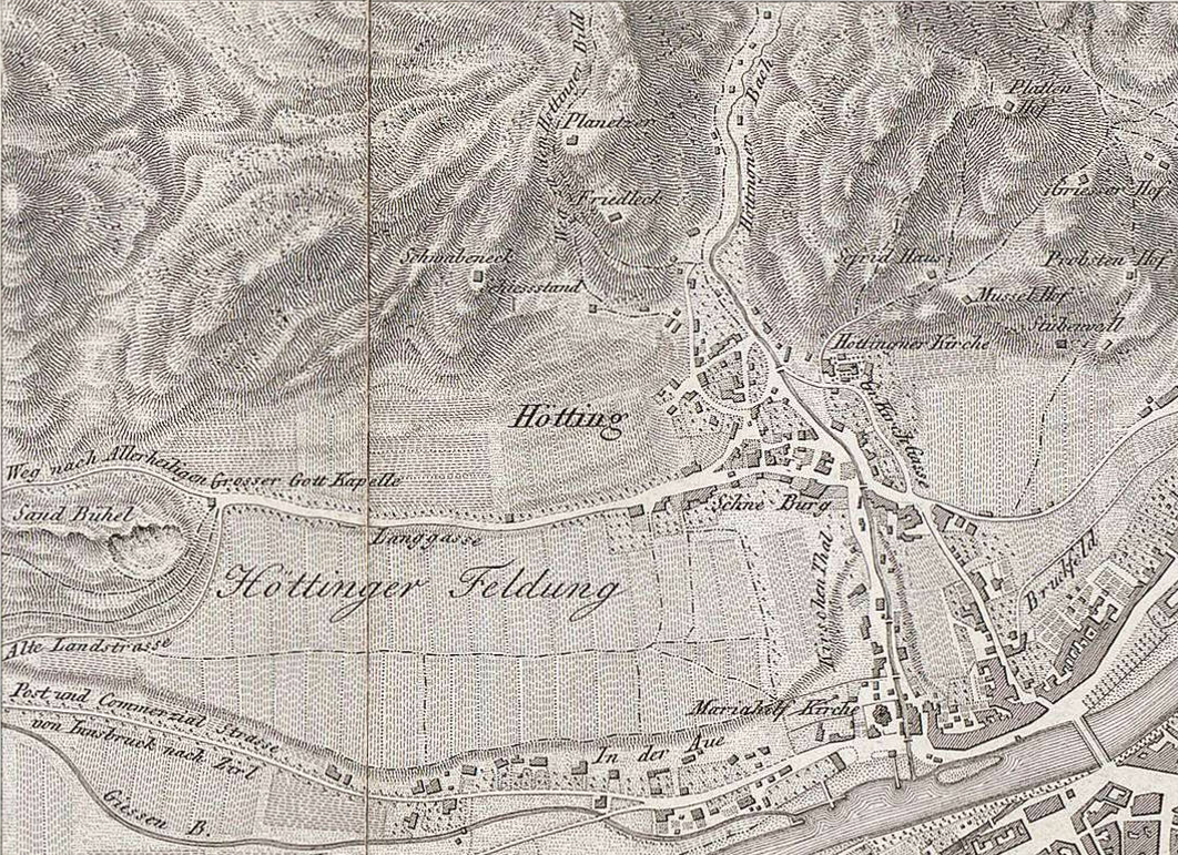 Map of Imperial and Royal Provincial Capital Innsbruck and surroundings: detail map – Hötting